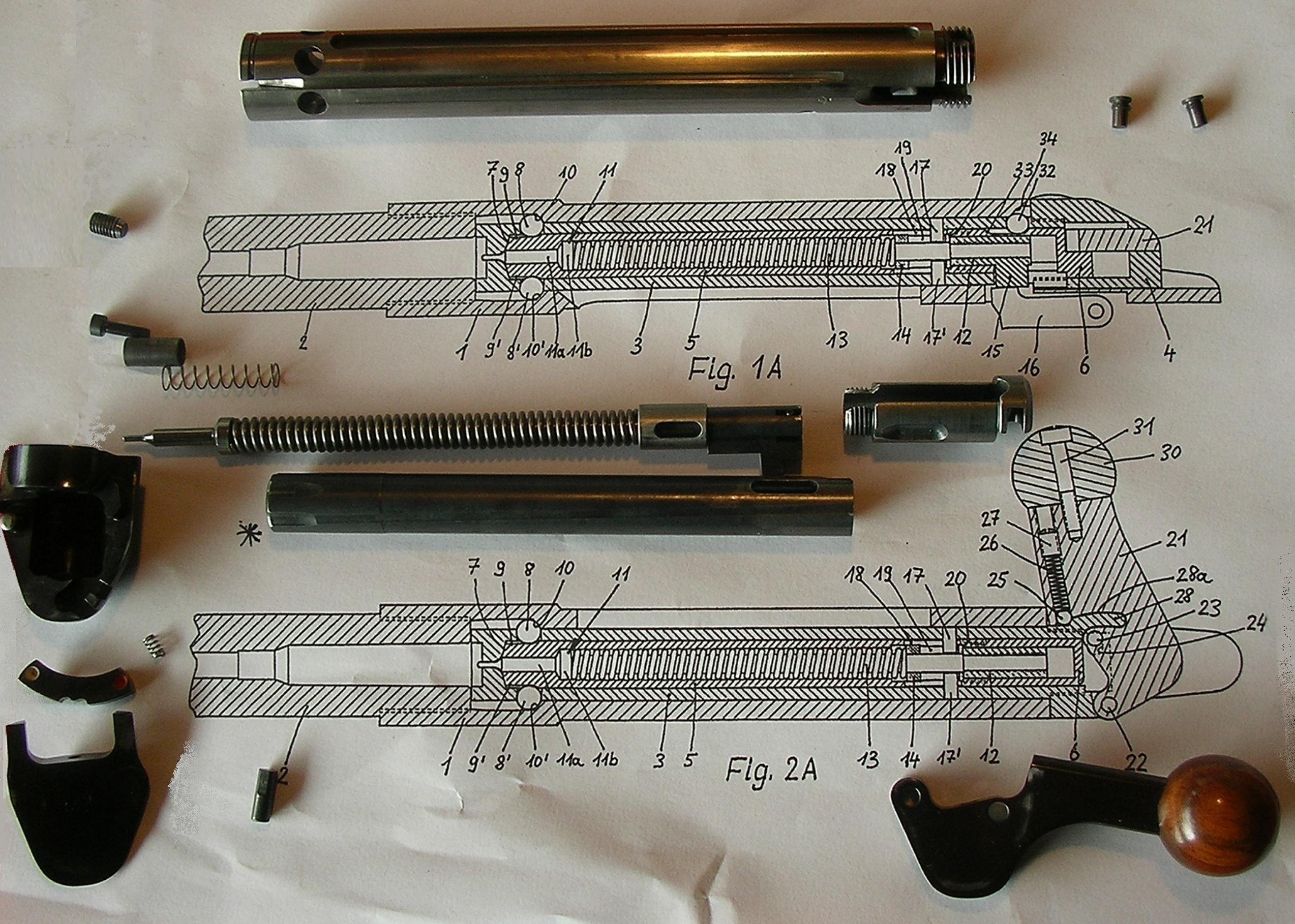 Heym SR 30 Straight Pull Bolt Action. The rifle Heym SR 30, a hunting rifle, designed by a German arms manufacturer named "Heym". It is a straight-pull action with 6 ball bearings around the circumference of the bolt head. When the bolt handle is pushed forward, it forces a central plunger down the interior of the bolt body, forcing the 6.5 mm (0.256 in) diameter ball bearings out to lock into negative shaped (concave) recesses in the receiver. Pull the bolt handle back, and the plunger retracts, allowing the locking bearing to retract into the bolt body so the bolt can open. Heym states they successfully had the SR 30 lock up tested by the C.I.P. accredited Suhl proofhouse loaded up to 800.00 MPa (116,030 psi) pressure.